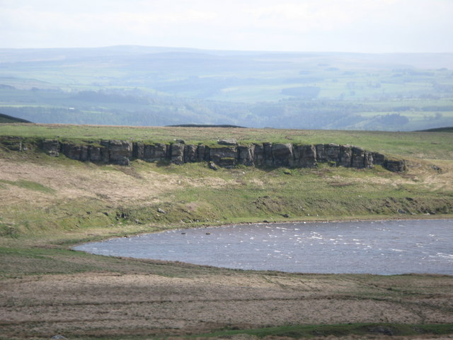 Dove Crag above Broomlee Lough Photo taken from the top of Queen's Crags in NY7970.